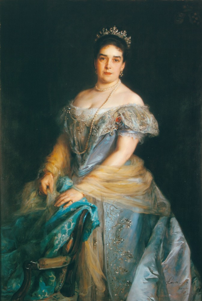 The Duchess of Ratibor, née Countess Maria Breunner-Enkevoith